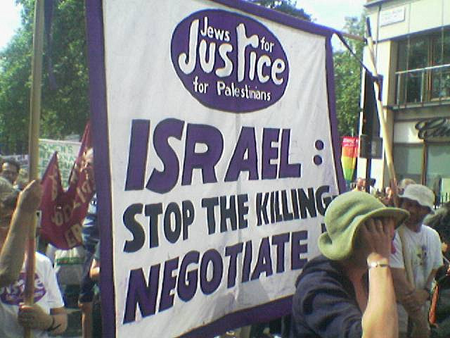 Stop the killing : Negotiate